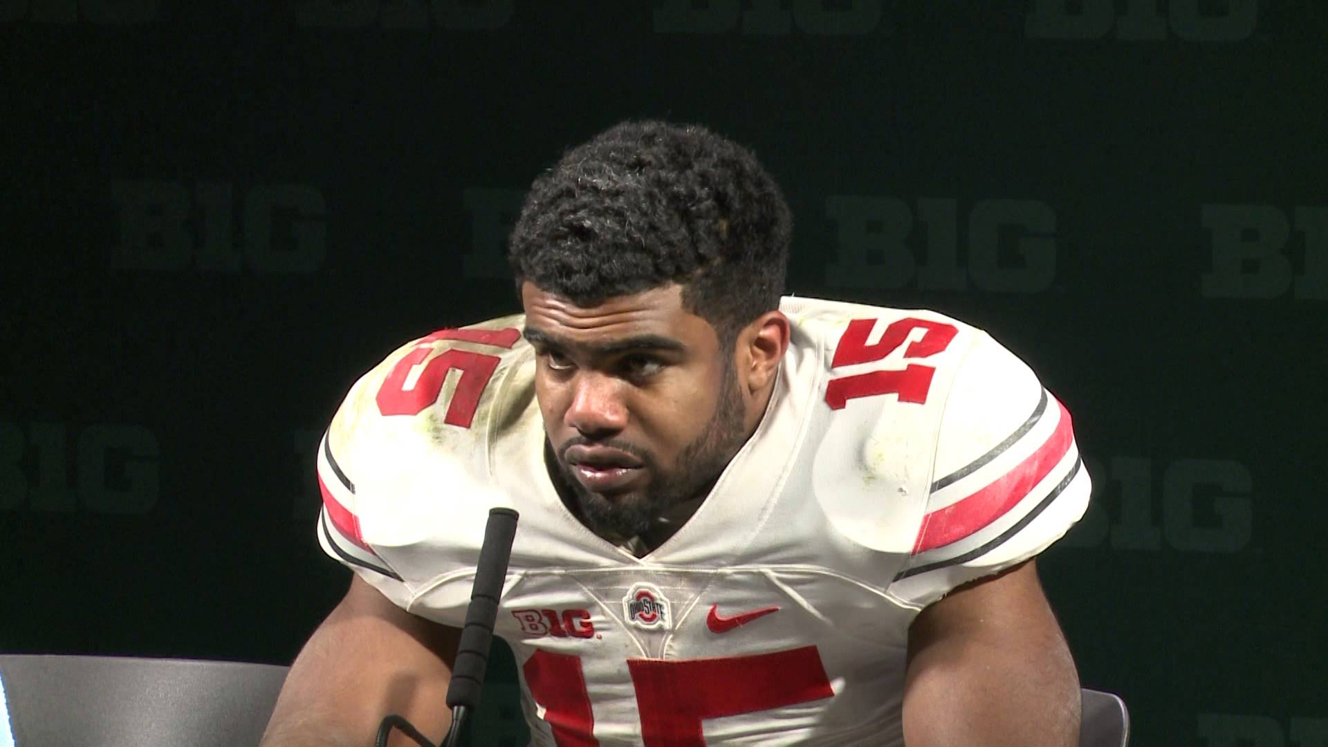 A picture of during an interview.